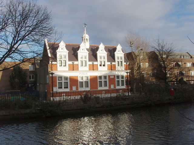 Queen's Park Library, Harrow Road, near to Paddington, Westminster, Great Britain. Photo from canal towpath. The library is in West Kilburn and the London Borough is the City of Westminster.